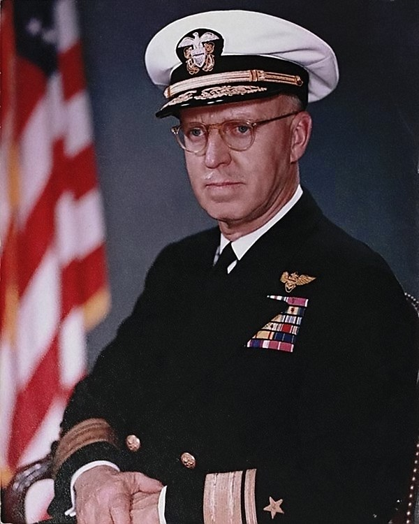 Walter D. Boone, ADM, USN (pictured as rear admiral)